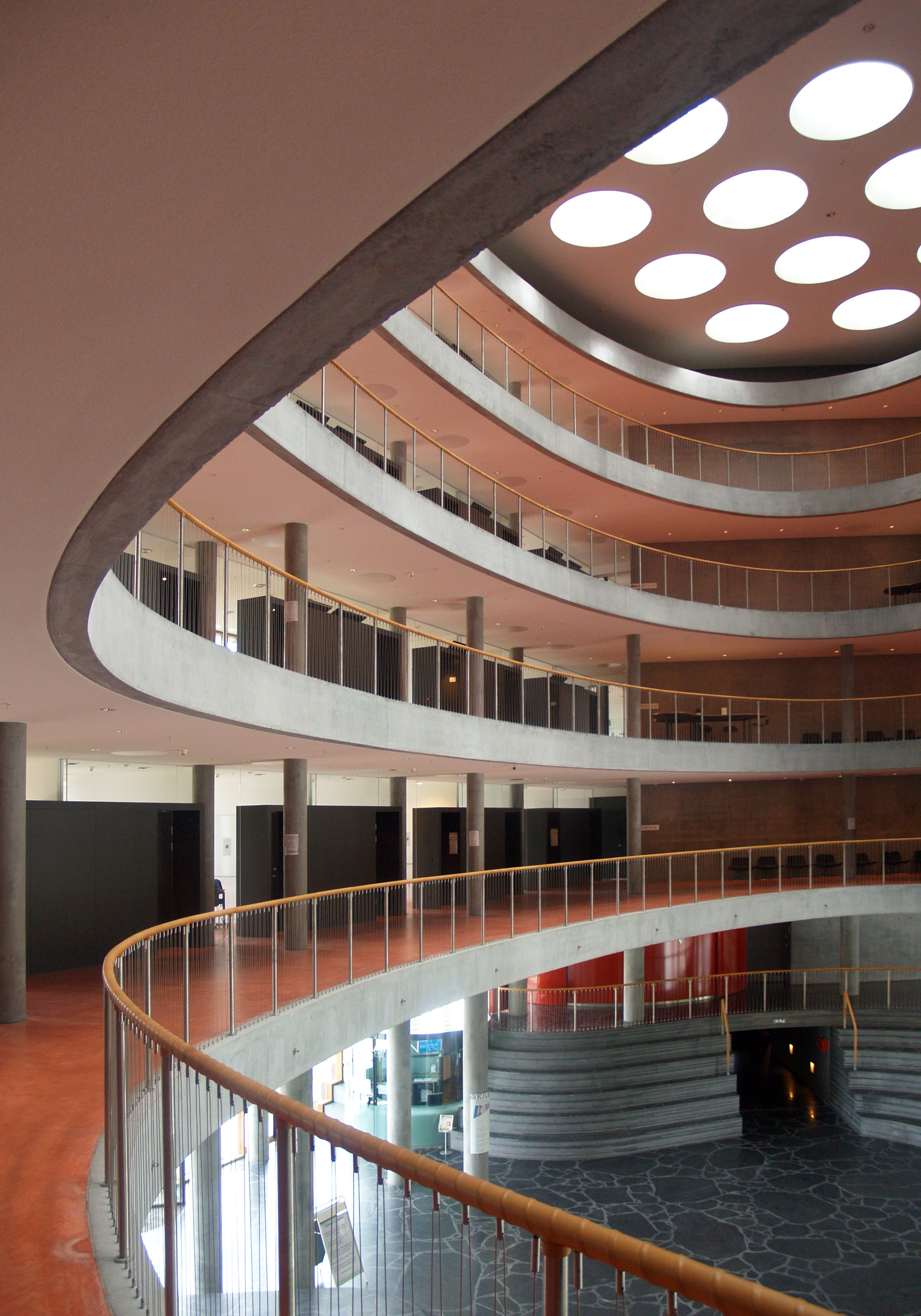 CBS, copenhagen business school, frederiksberg. architects: lundgård+tranberg, 2002-2005. RIBA european award 2006. atrium. lundgaardtranberg.dk/